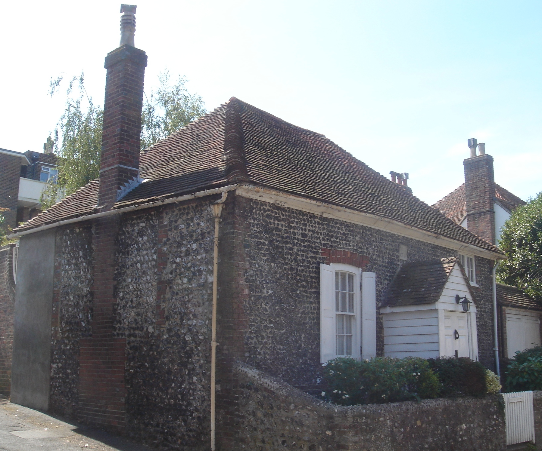 Former Baptist Chapel, Eastport Lane, Southover, District of Lewes, East Sussex, England. Converted to a house in 1972; built as Lewes's first Baptist place of worship in 1741. Listed at Grade II by English Heritage (IoE Code 293069)